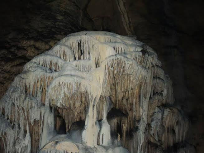 Haji Prodan’s cave. Српски (ћирилица): Хаџи Проданова пећина.